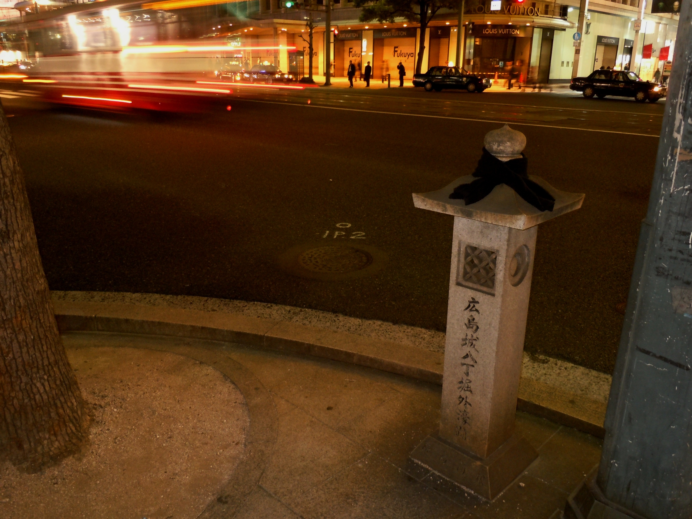 Hatchobori, Naka Ward, Hiroshima, Hiroshima Prefecture 730-0013, Japan